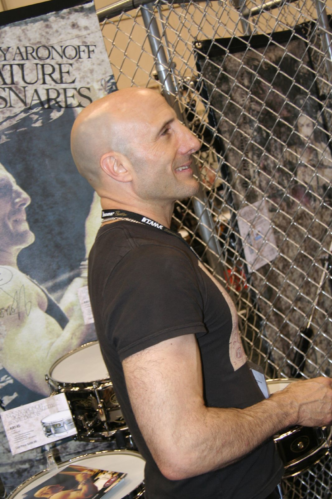 Side view of American rock drummer Kenny Aronoff from a signing in 2005